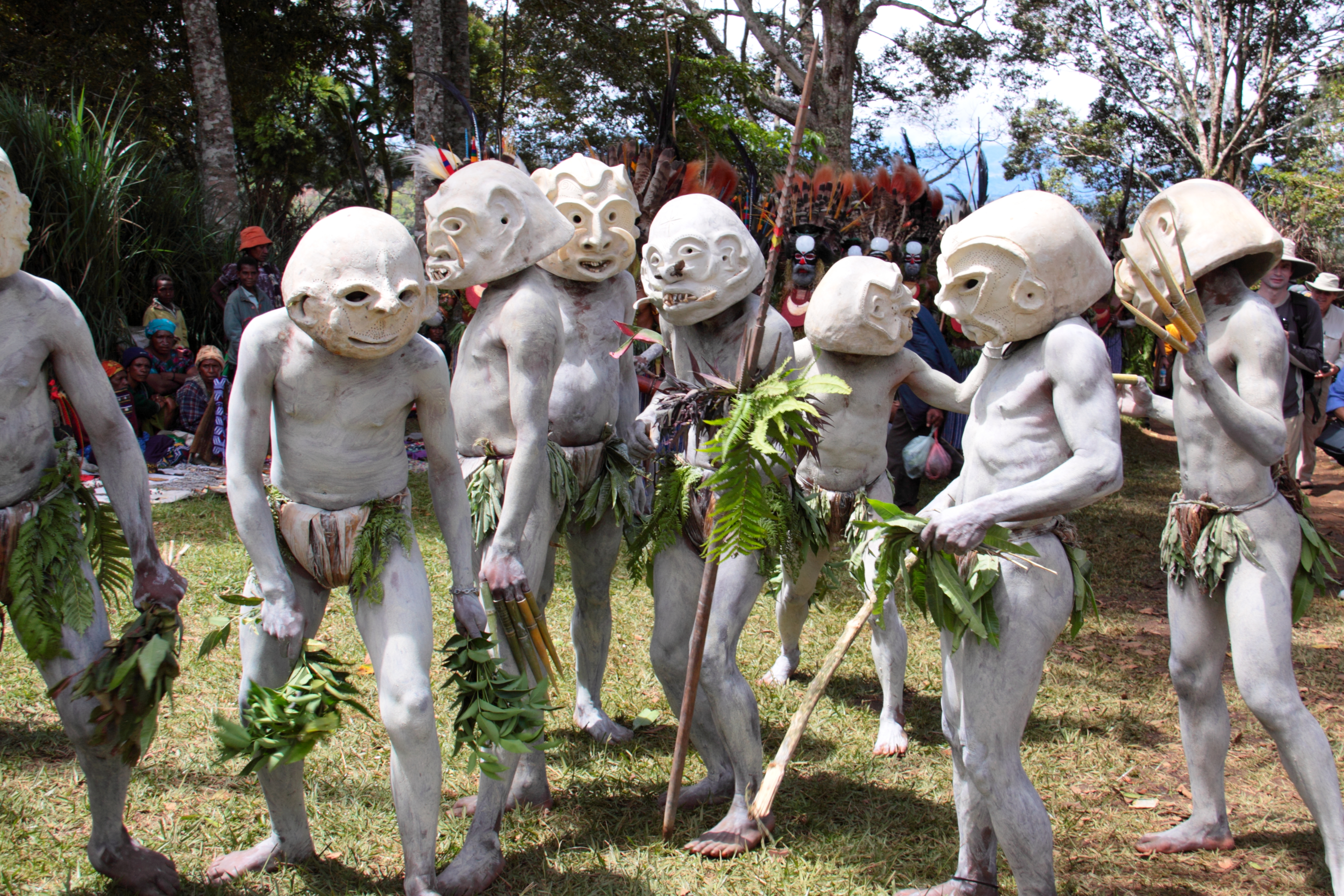 new guiney, papous from thiafamous group